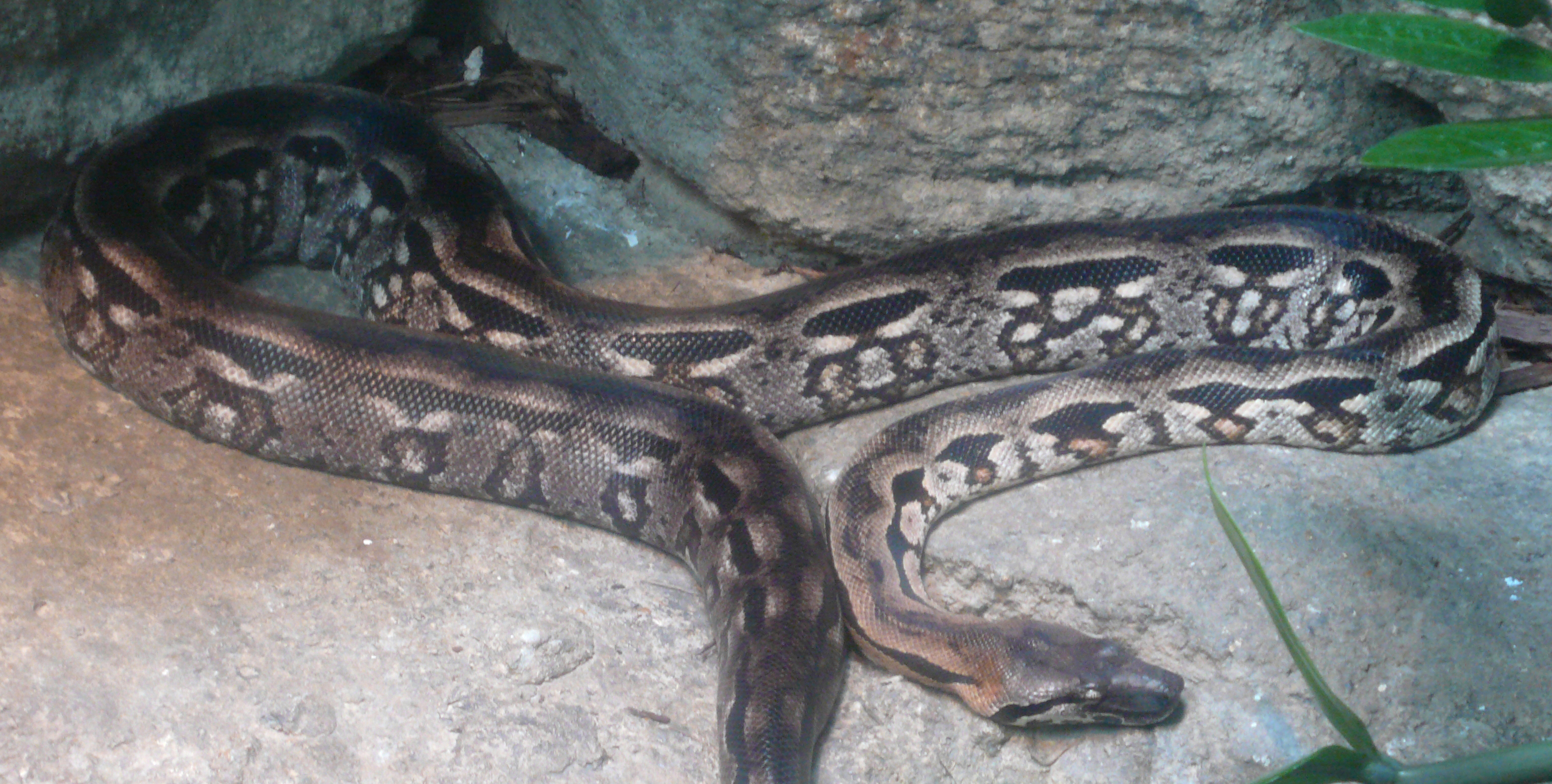 Madagascar Ground Boa (Acrantophis madagascariensis or Boa madagascariensis)